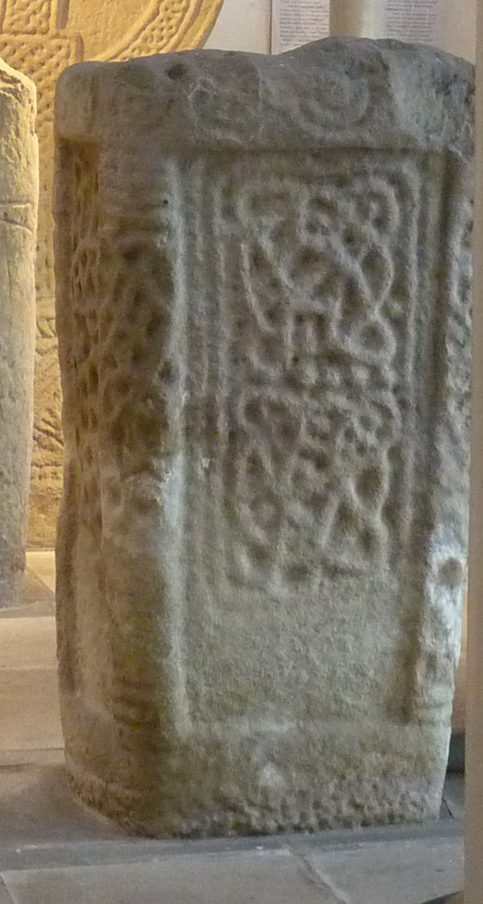 11th C cross pedestal with socket for a now absent cross. It has crude interlace pattern and moulded edging, and stood until 1968 at a farm on the River Ogmore north of Bridgend. It is now in the Margam Stones Museum nr Port Talbot.